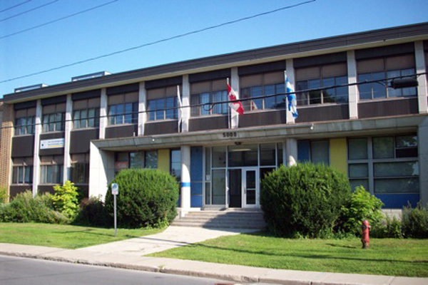 Pearson Electrotechnology Centre